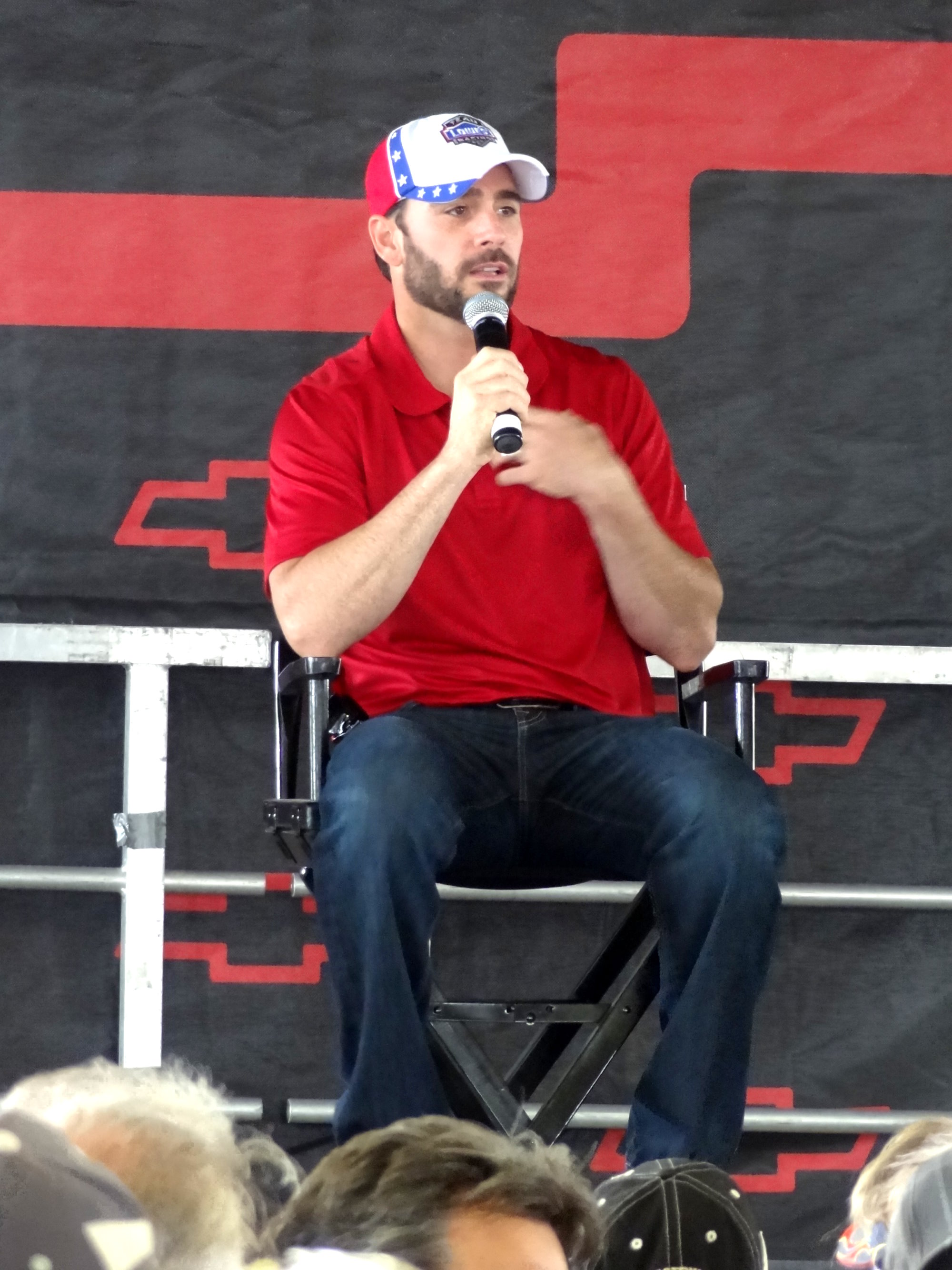 Johnson at the Chevrolet fan meeting.